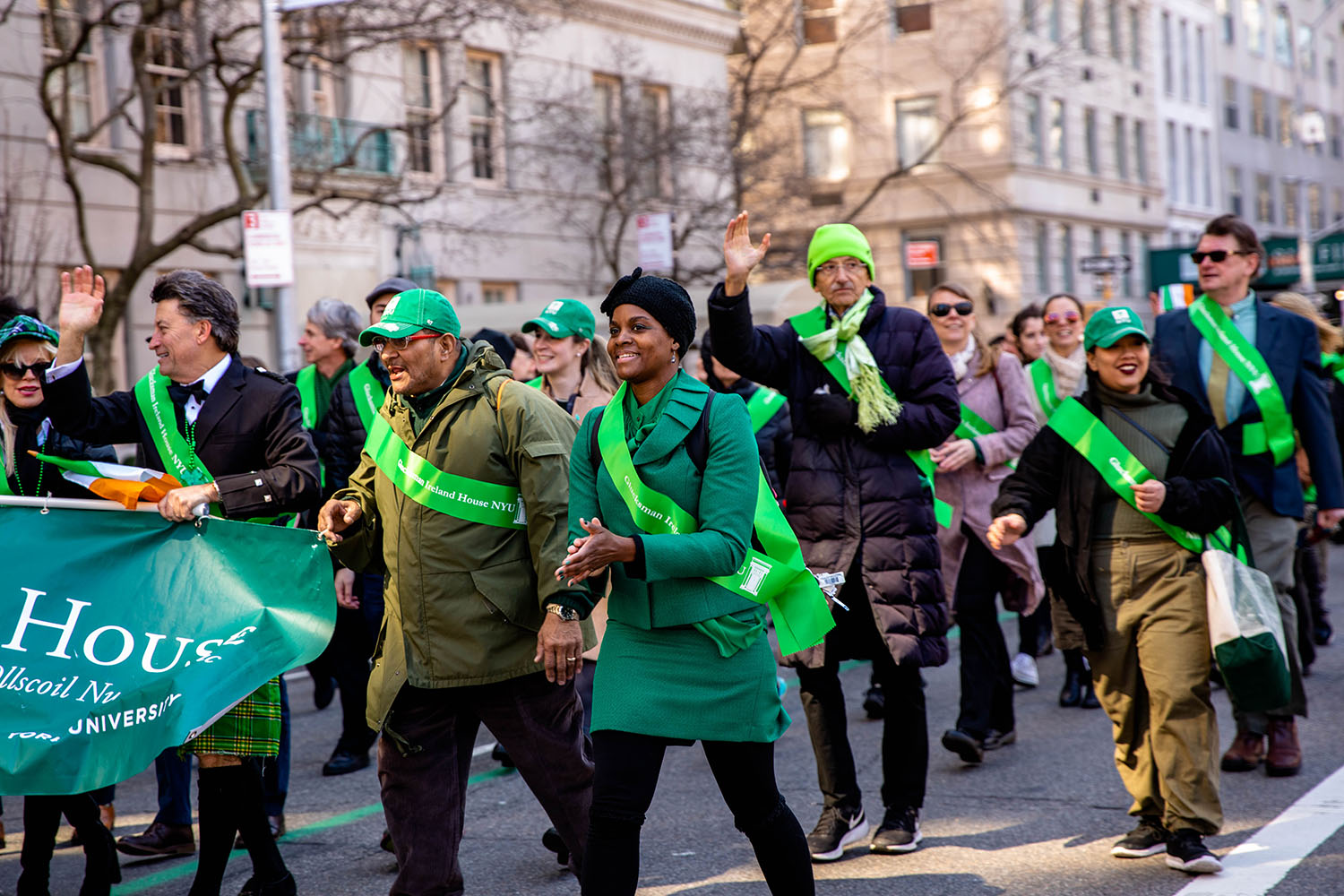 Glucksman Ireland House NYU and NYU Pipes and Drums march in the NYC St. Patrick's Day Parade, Saturday, March 16, 2019. (Credit: Kate Lord/New York University)